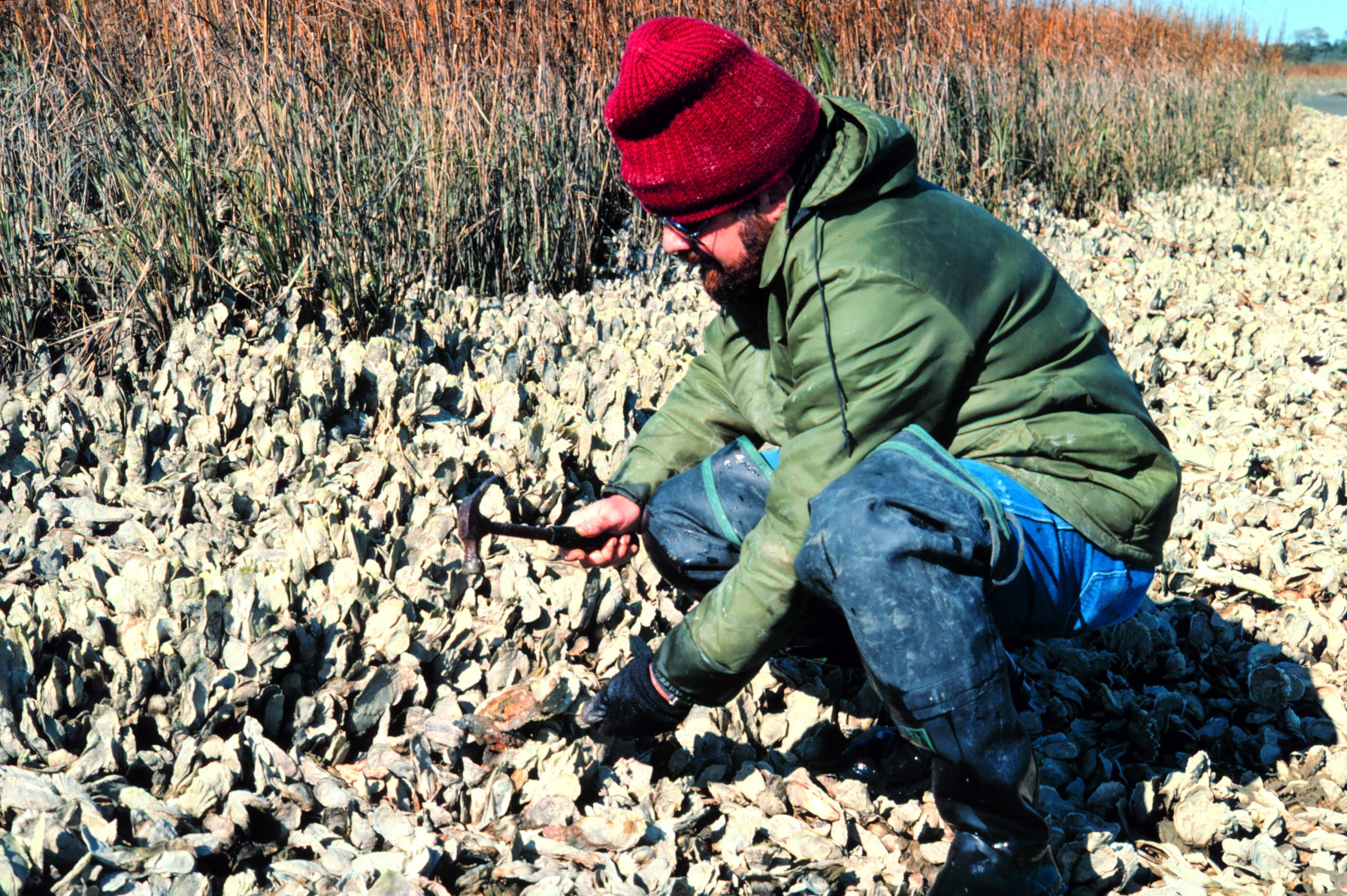 North Inlet - Winyah Bay National Estuarine Research Reserve. The American Oyster, Crassotrea virginica, grows intertidally in South Carolina estuaries and is most effectively collected at low tide by recreational and commercial harvesters. Vicinity of Georgetown, South Carolina.